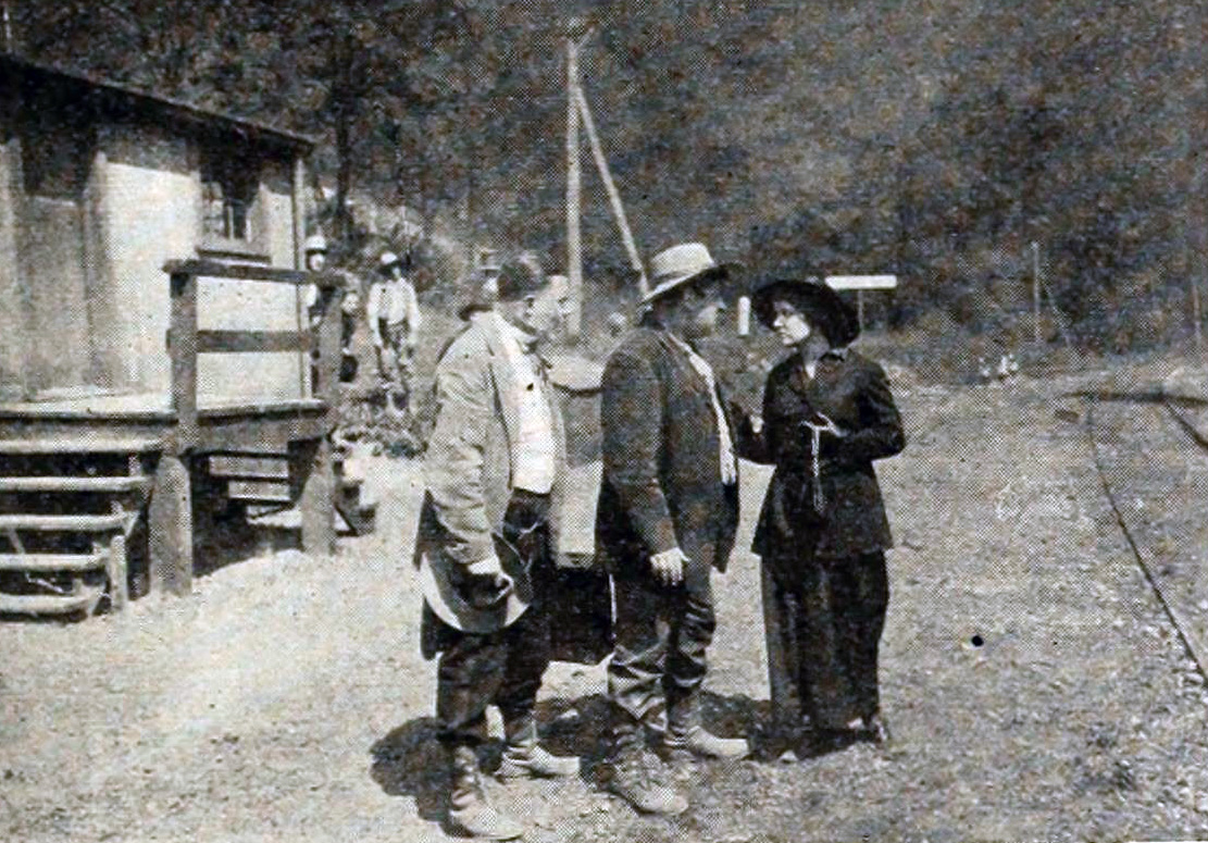 Illustration of a review in The Moving Picture World for the American film The Quitter (1916).